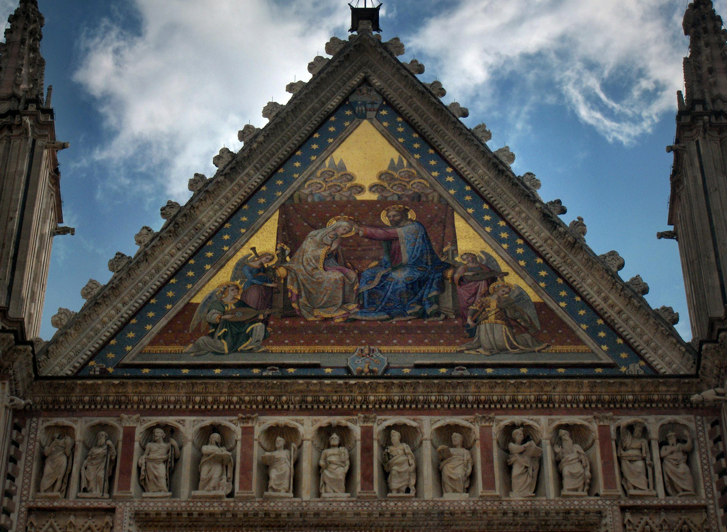 Coronation of the Virgin Mary; mosaic on the cathedral of Orvieto, Italy